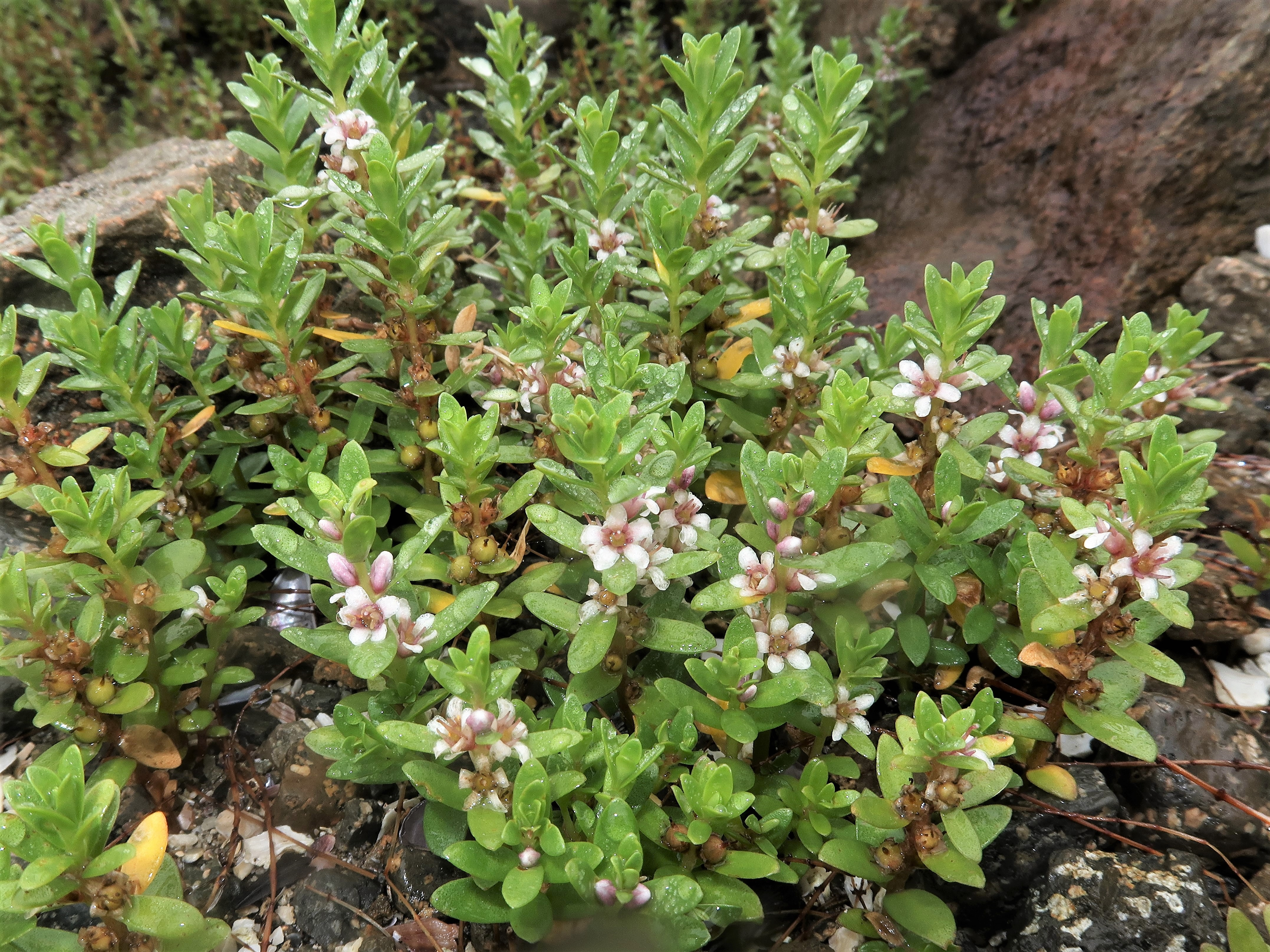 Lysimachia maritima var. obtusifolia , Tanesashi Coast, Aomori pref., Japan